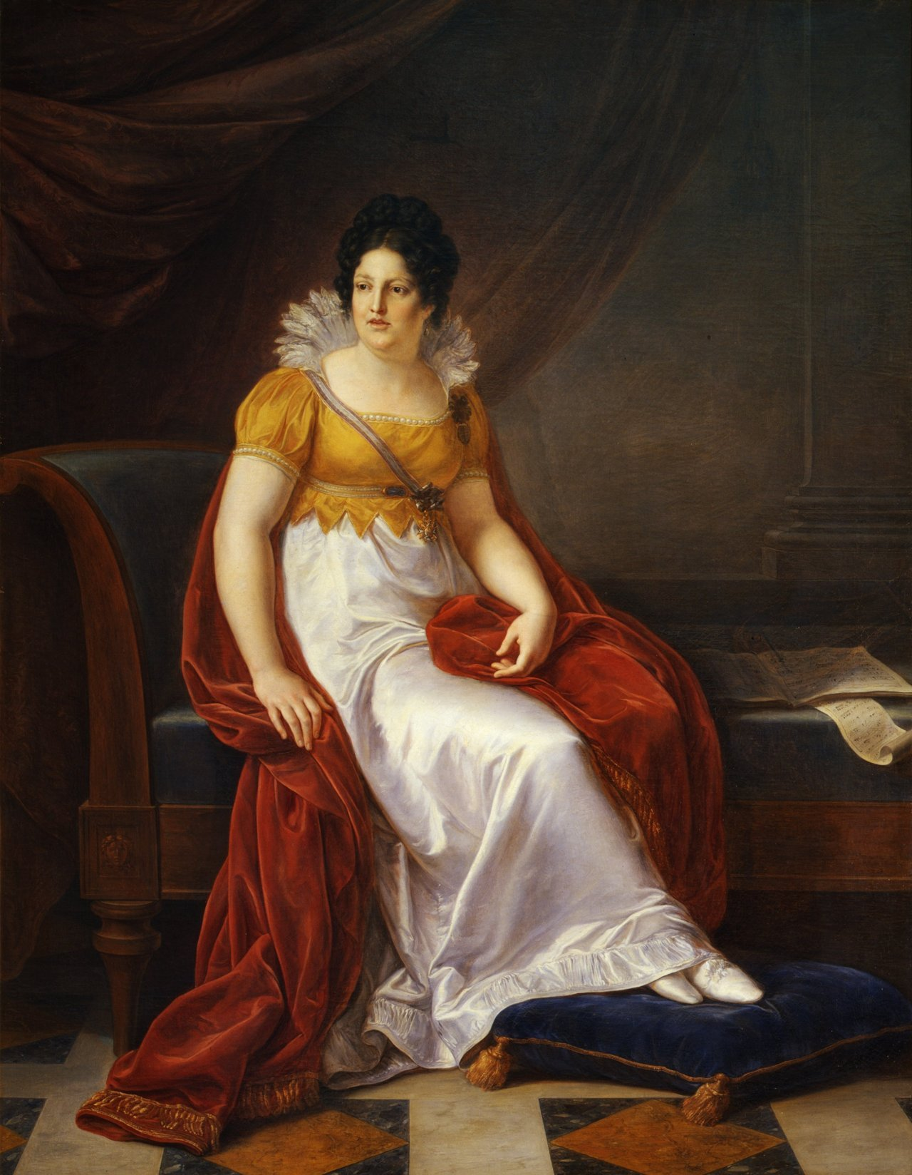 Maria Luisa of Spain, Duchess of Lucca (1782-1824)